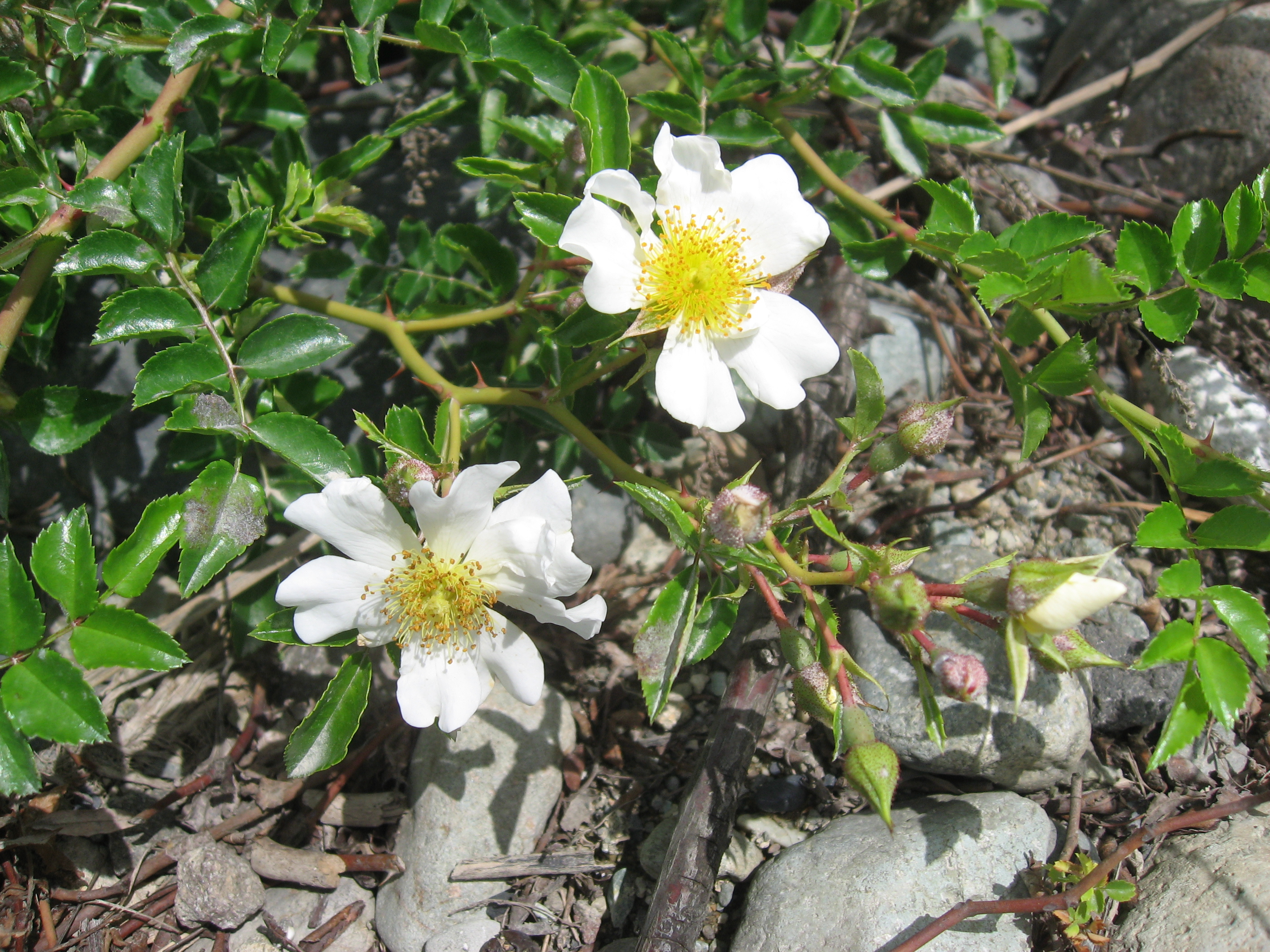 Rosa luciae, Aizu area, Fukushima pref., Japan